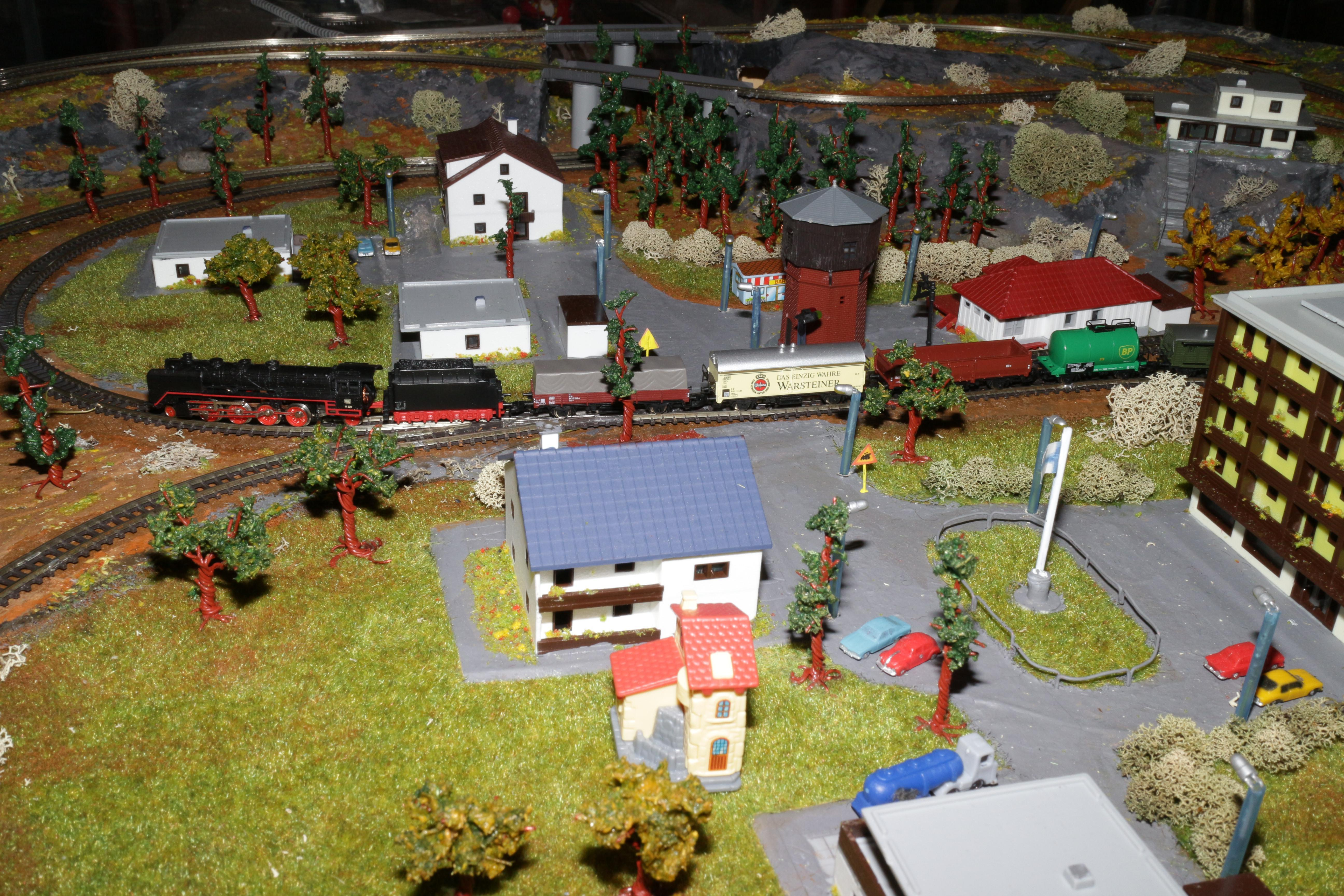 Märklin Z-scale (1:220) layout inside a coffe table.